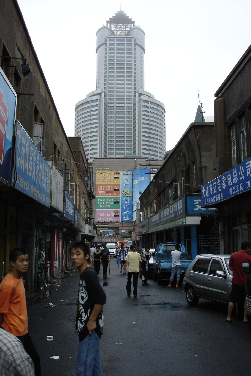 Modern building of a bank in Dalian in the background. Traditional shops in the front.